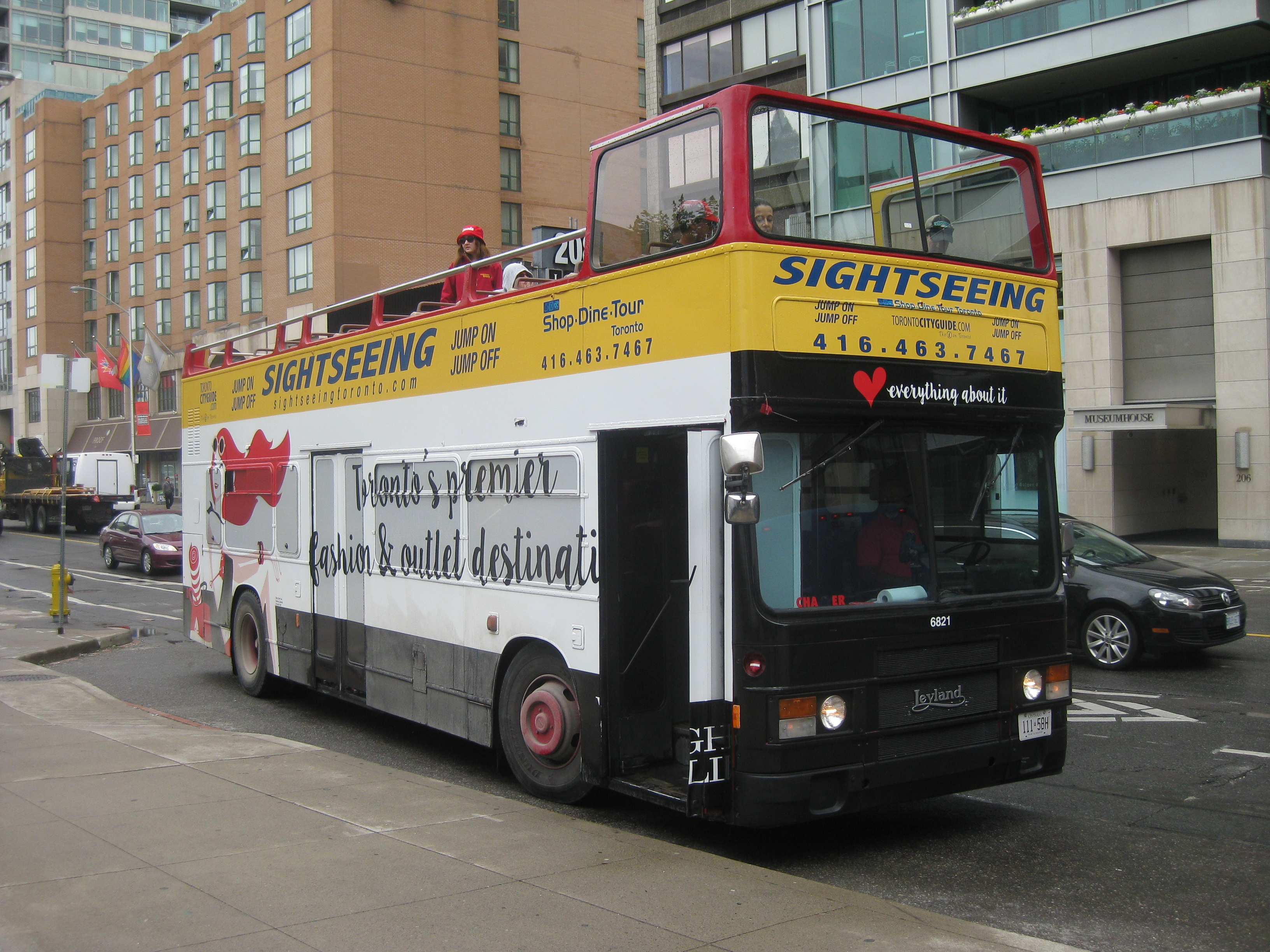 B757UHG is a left hand drive ECW bodied Leyland Olympian built as a demonstrator for the American market. It failed to attract much interest and after a short spell in the fleet of Gray Line, Victoria it was purchased by Brampton Transit, Ontario where it served for many years before being purchased for preservation. In 2016 it was sold to Bus and Boat, Toronto and converted to open top to operate tours of the city and is now licence plate number 111-5BH, fleetnumber 6821 in the associated Shop Dine Tour fleet. The Canandian nearside shot shows the door layout with the unusual exit door position and the misshapen door leafs of the front door.